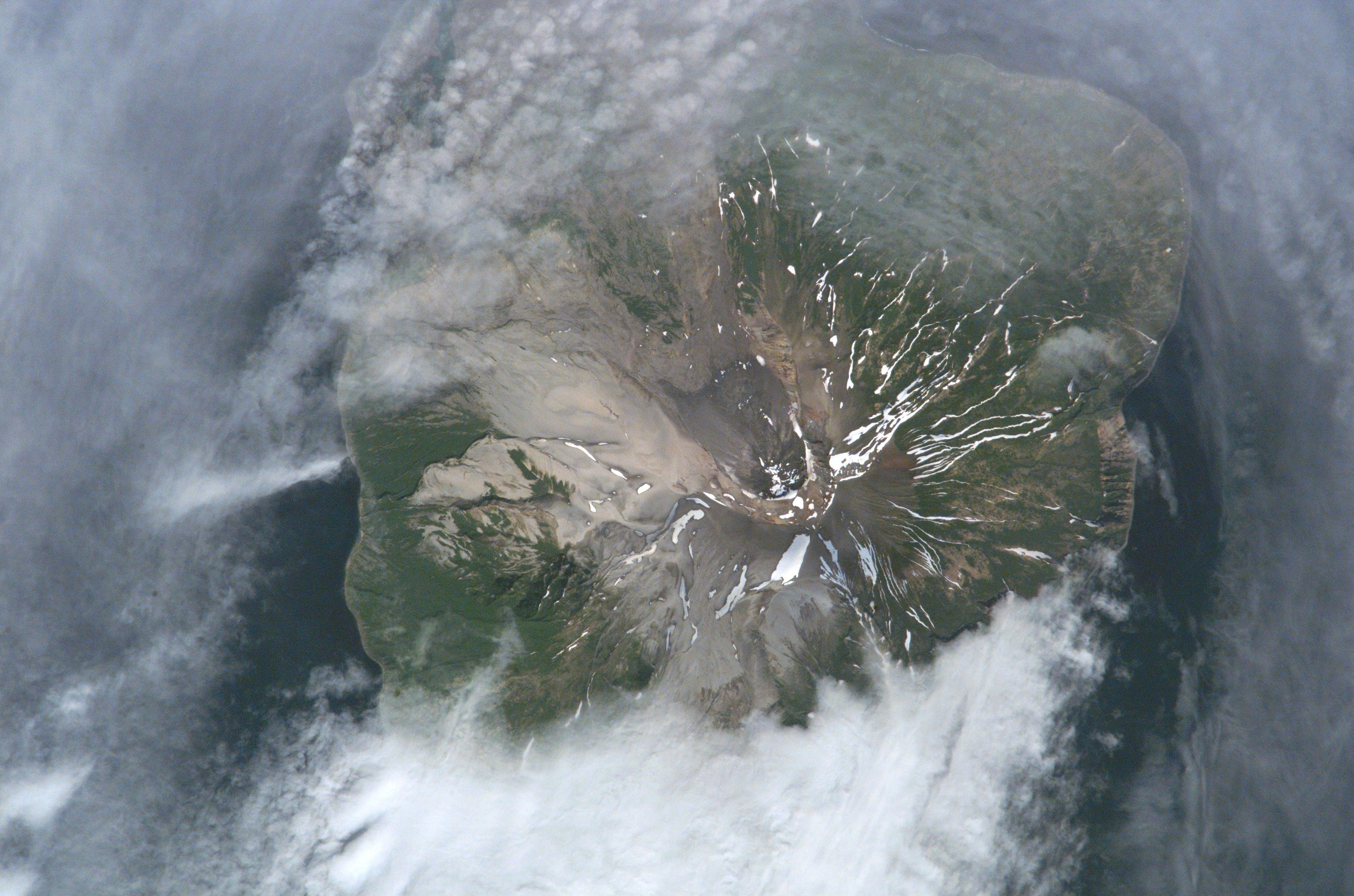 Kharimkotan, of the Kuril Islands. Photographed from the International Space Station.